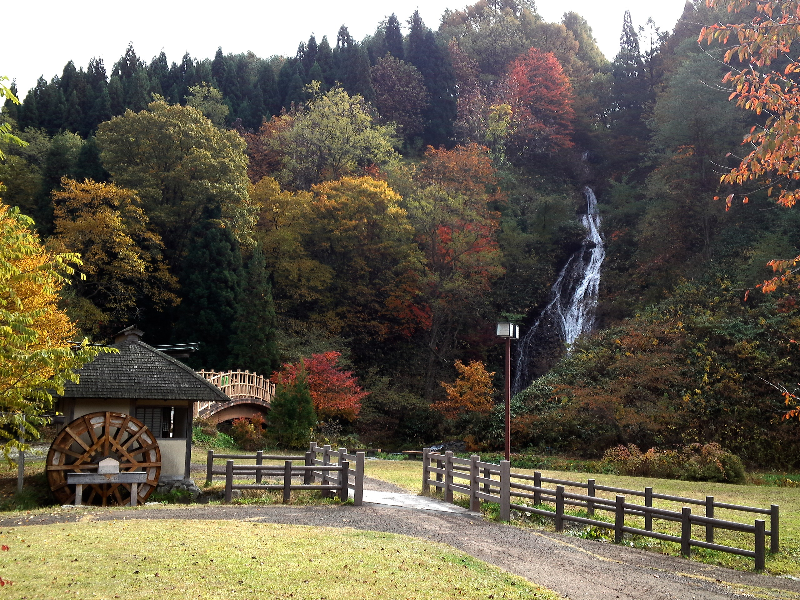 Nanataki waterfalls, red leaves and watermill in Kosaka Town, Akita Prefecture, Japan